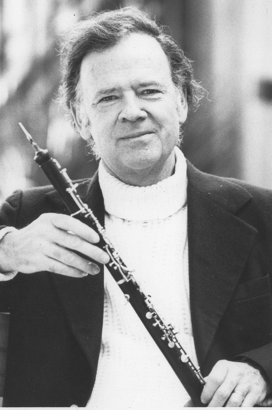 Photo of Ray Still in the 1980's taken by his daughter, Mimi Dixon.